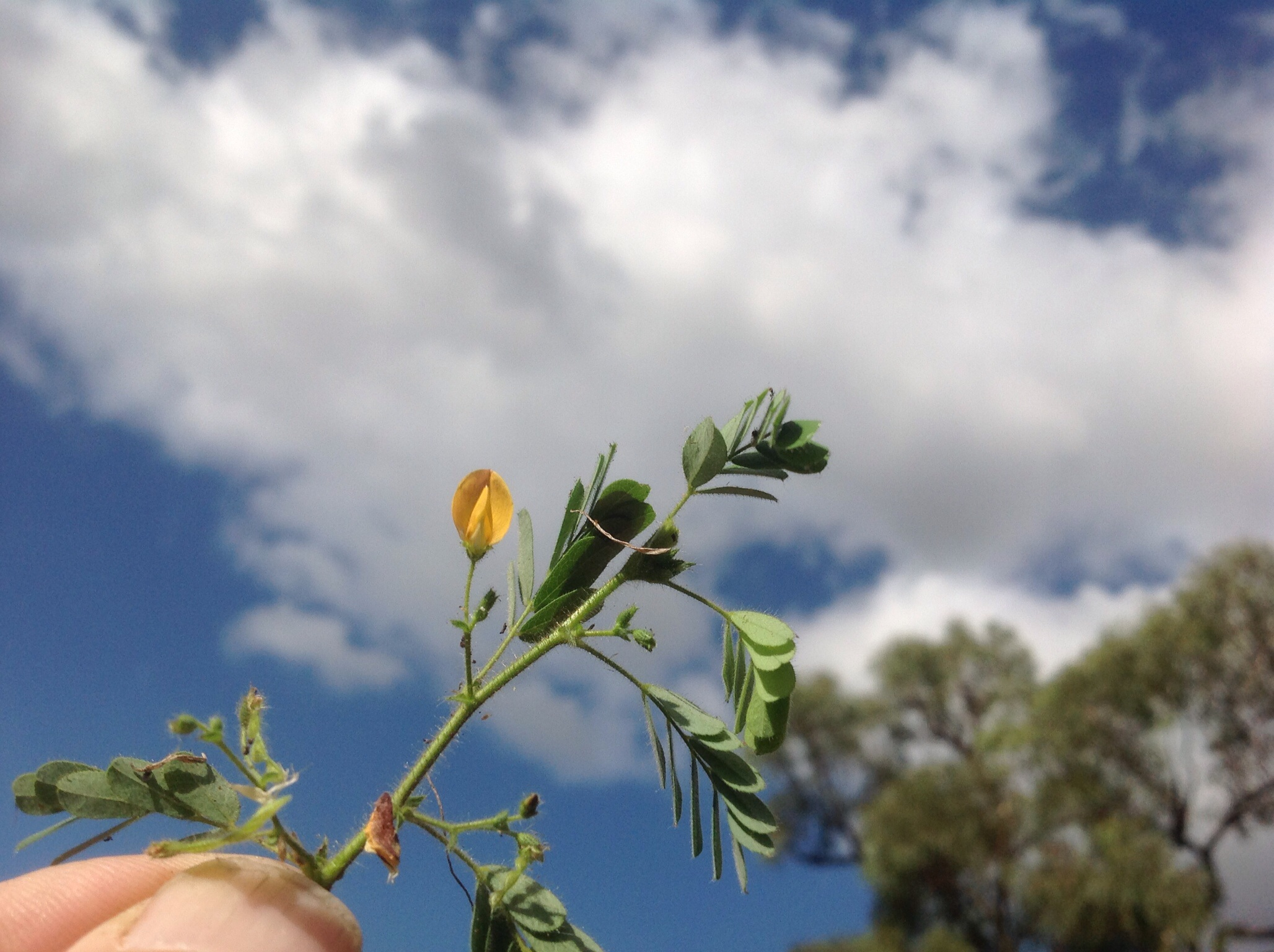 Aeschynomene brasiliana